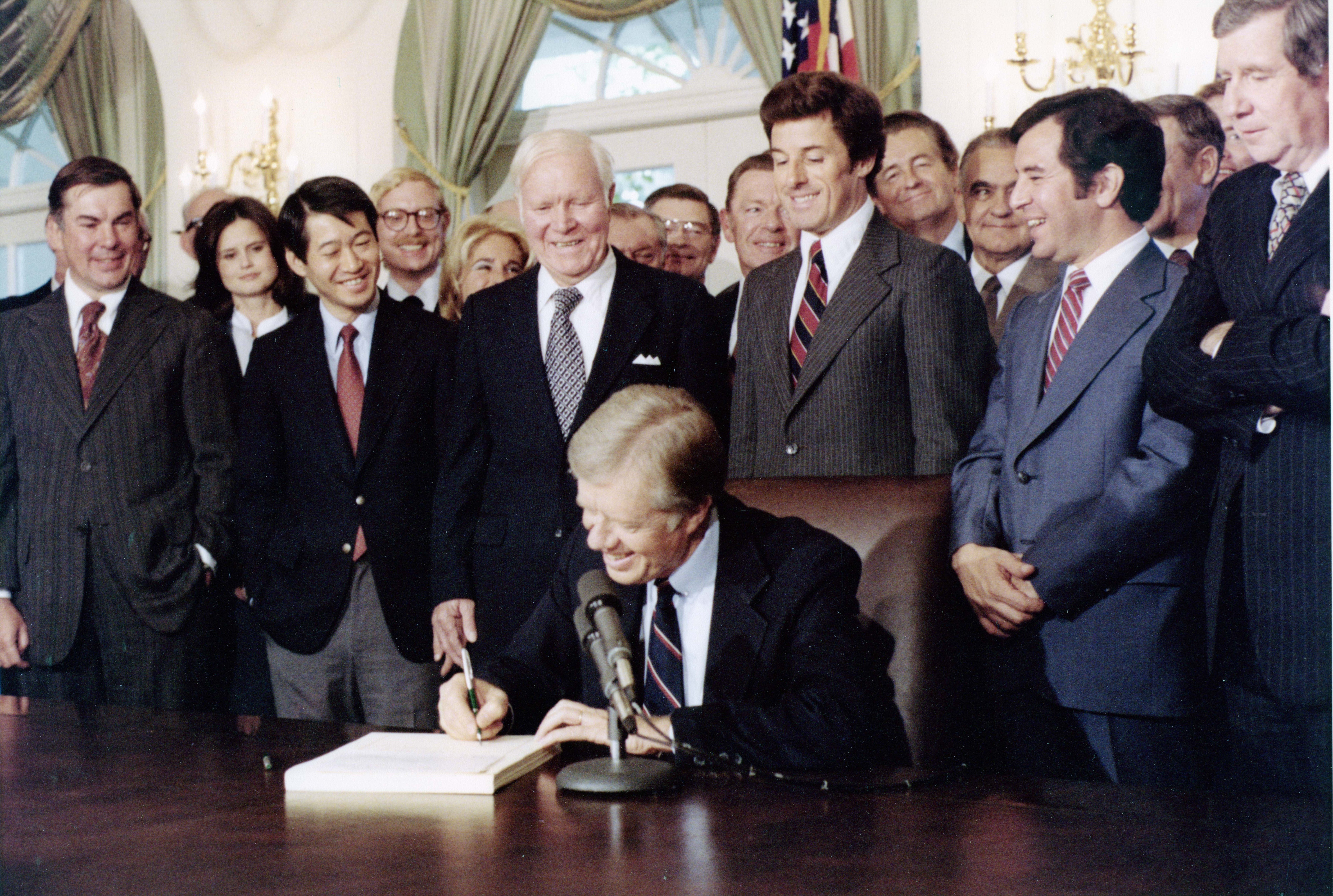 President Jimmy Carter signs the Staggers Rail Act of 1980 into law. Congressman Harley O. Staggers, Sr., the bill's sponsor, stands behind the president.